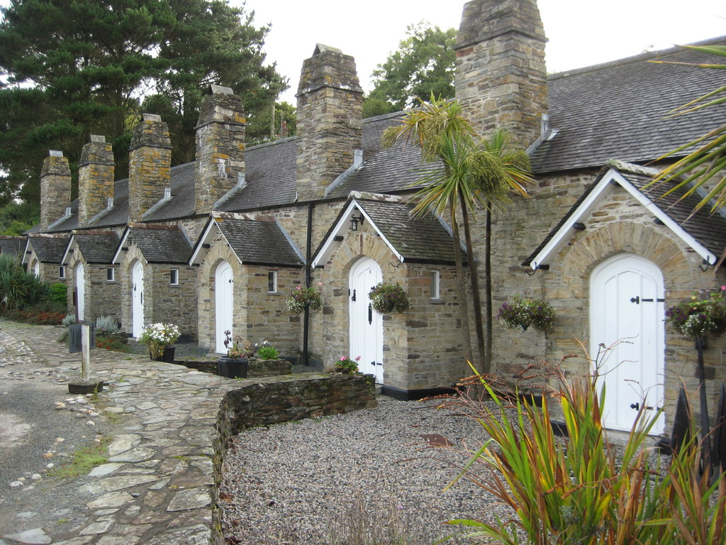 The Rashleigh Almshouses in Polmear, near Fowey, Cornwall, UK. For more information, see the Wikipedia article Polmear, Cornwall.